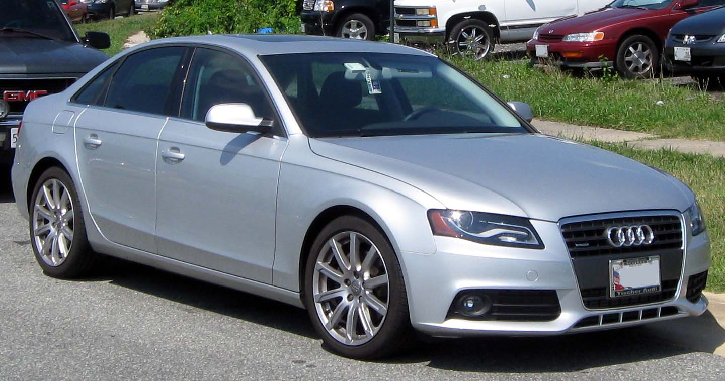 2009-2012 Audi A4 photographed in Silver Spring, Maryland, USA.